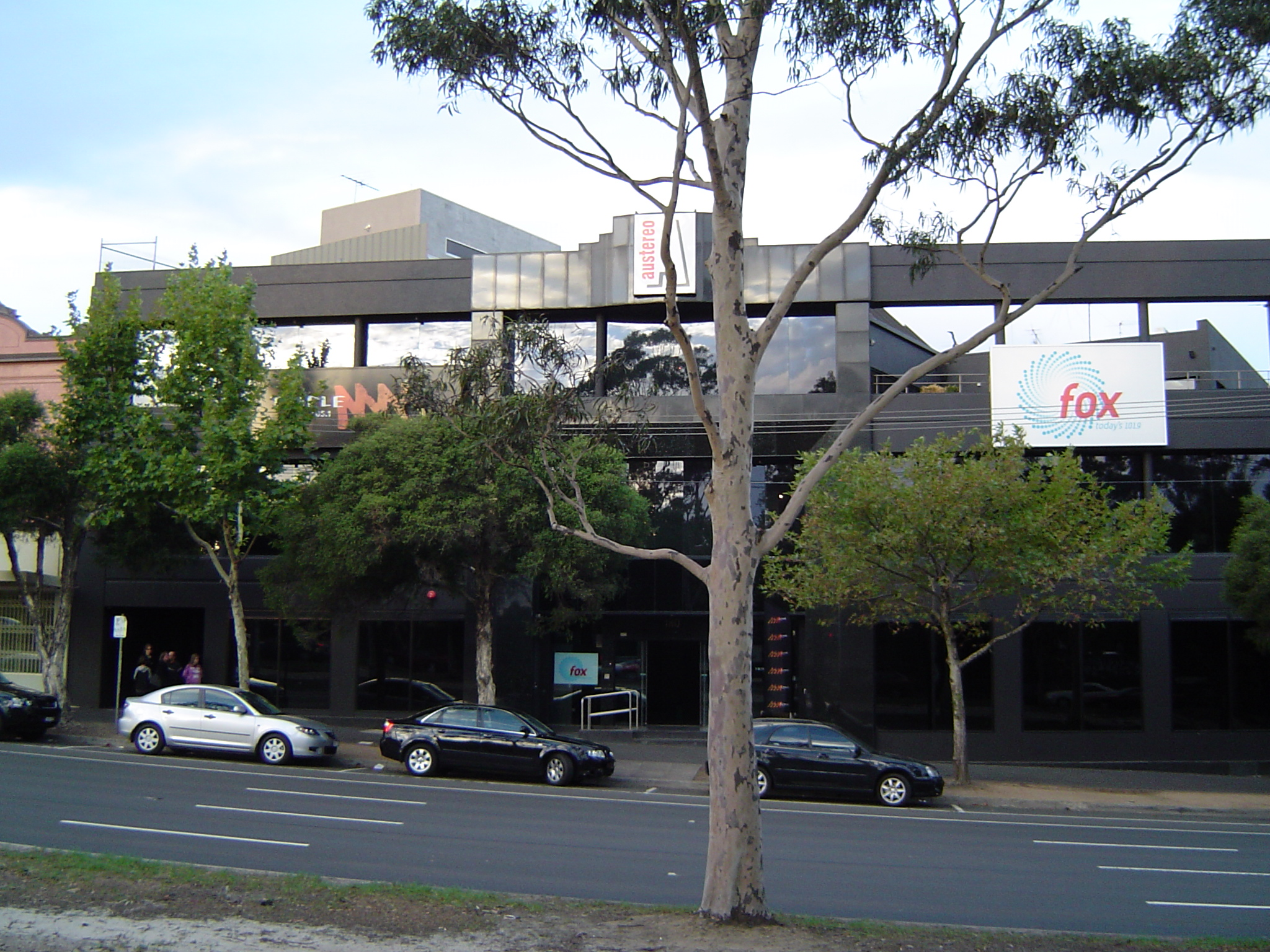 Melbourne office of Austereo and its stations Fox (3FOX) and Triple M (3MMM). They have since moved to Austereo's new national headquarters at 257 Clarendon Street, South Melbourne.